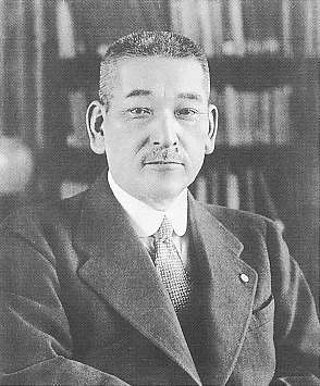 Takeda Goichi (Japanese architect)